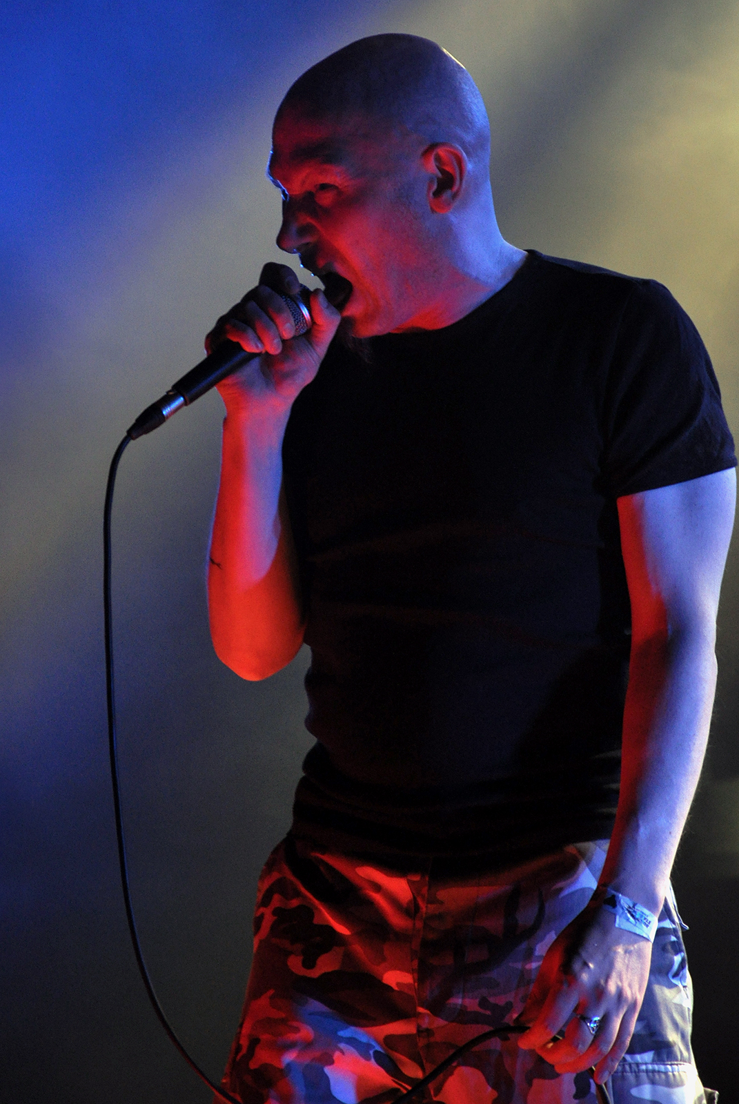 Mika Luttinen, the singer of Impaled Nazarene, at the Kings Of Black Metal in Alsfeld (Germany), on the 21st of April 2012.